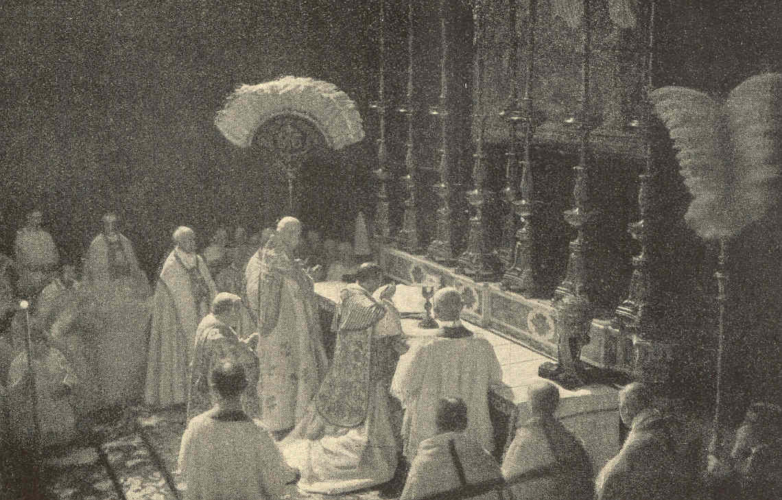 Copyright expired photo of Pope Benedict XV (1903-1922) in the year 1914 at the coronation